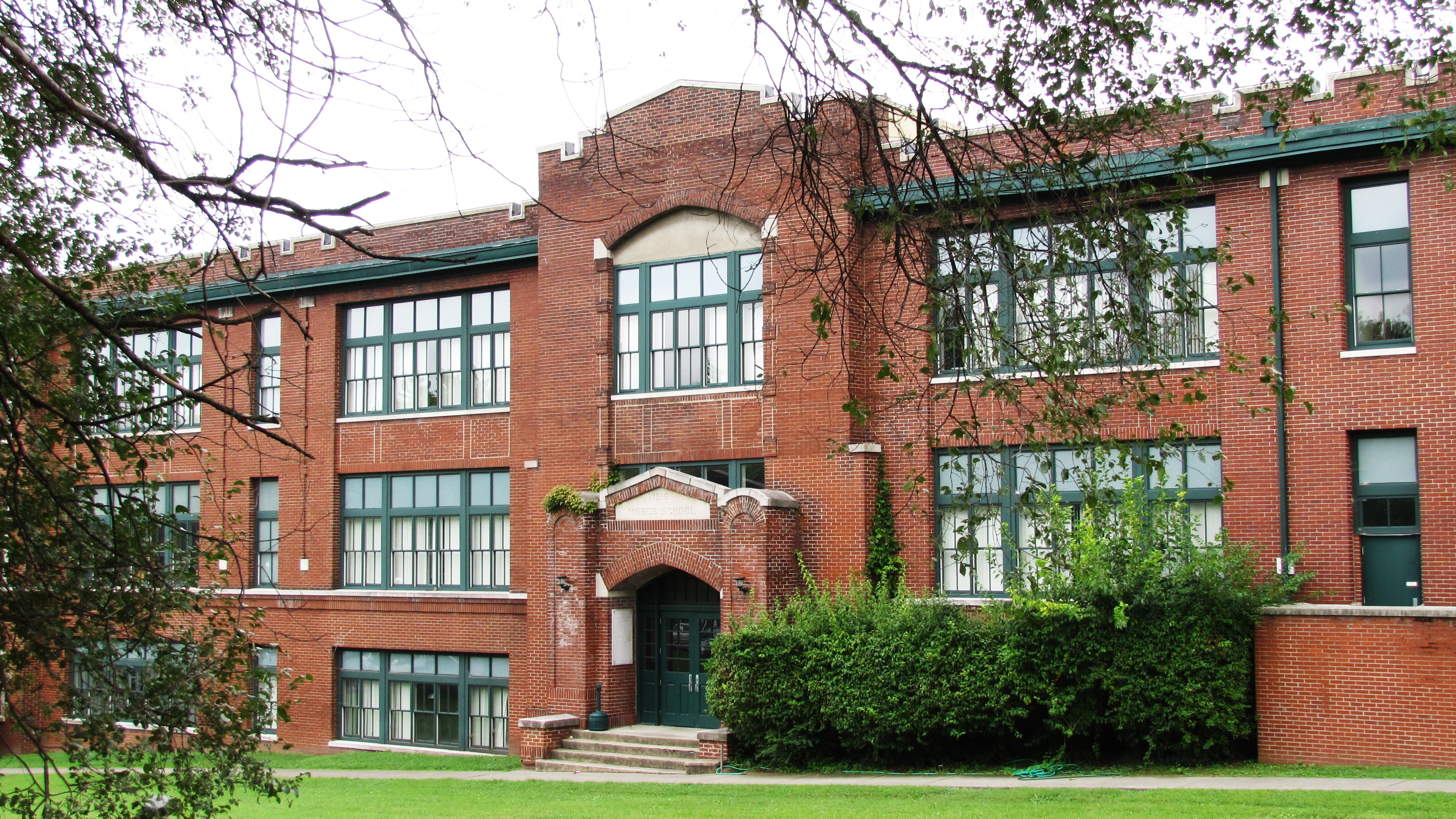 The old Moses School building (221 Deaderick Avenue) in the Mechanicsville neighborhood of Knoxville, Tennessee, USA. The school was established in 1916, and the present building was constructed circa 1930. The building now houses a local Boys and Girls Club and a Knox County Sheriff's office training center.